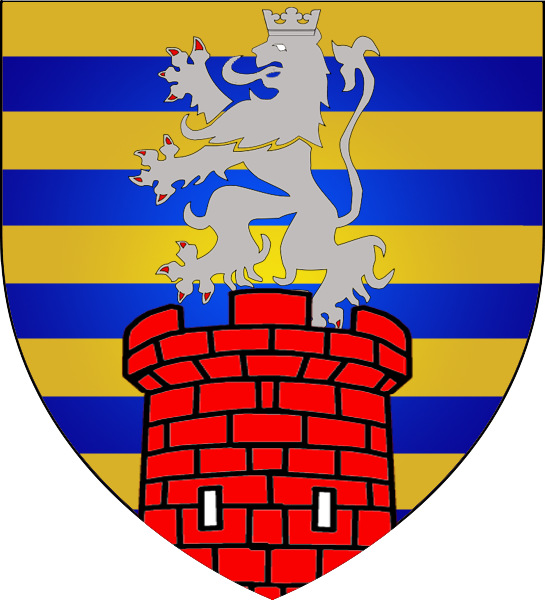 Coat of arms of the municipality of Diekirch, Luxembourg